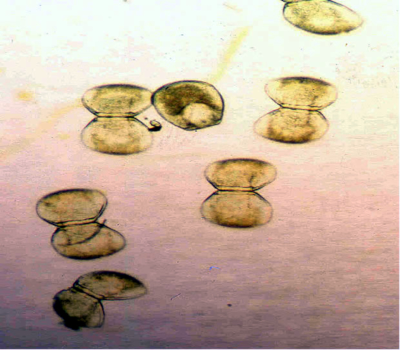 Glochidia of Lampsilis higginsii USFWS photo